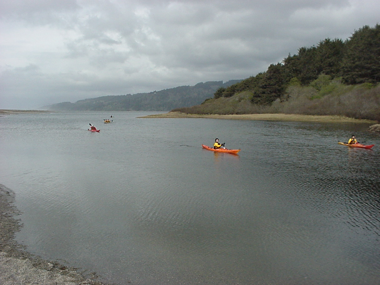 Kayaks at near the boat launch ramp at the south end of Big Lagoon in Humboldt Lagoons State Park, Humboldt County, California, USA.